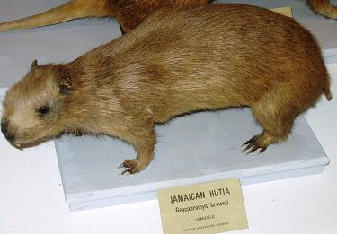 Geocapromys brownii (an exhibit of Museum of Comparitive Zoology, Harvard University)